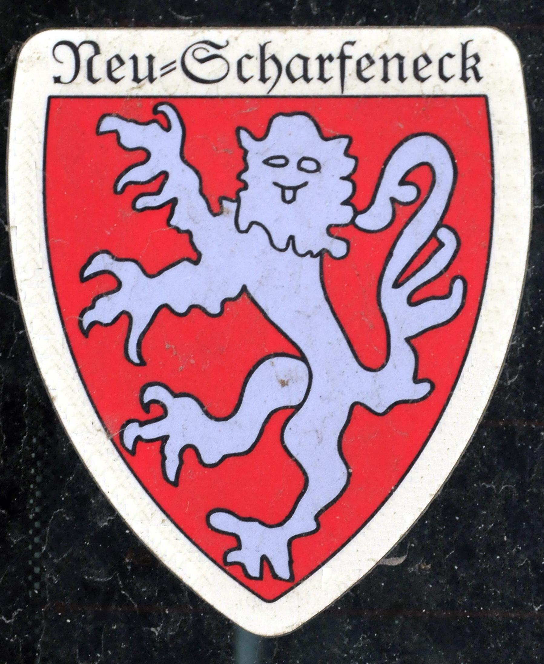 Coat of Arms of the Knights of Neuscharfeneck